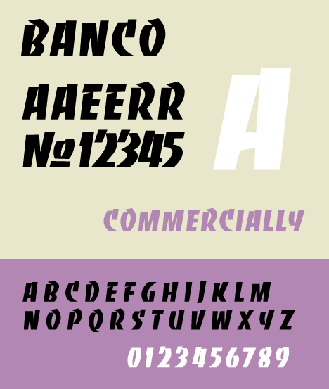 Specimen of the typeface Banco.